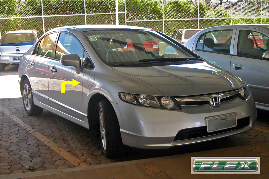 Photoshop edited image of a Brazilian 2008 Honda Civi flex-fuel showing the separate access to the reservoir gasoline tank available for use for cold starting during cold weather. The Flex flex badge is from the car shown.